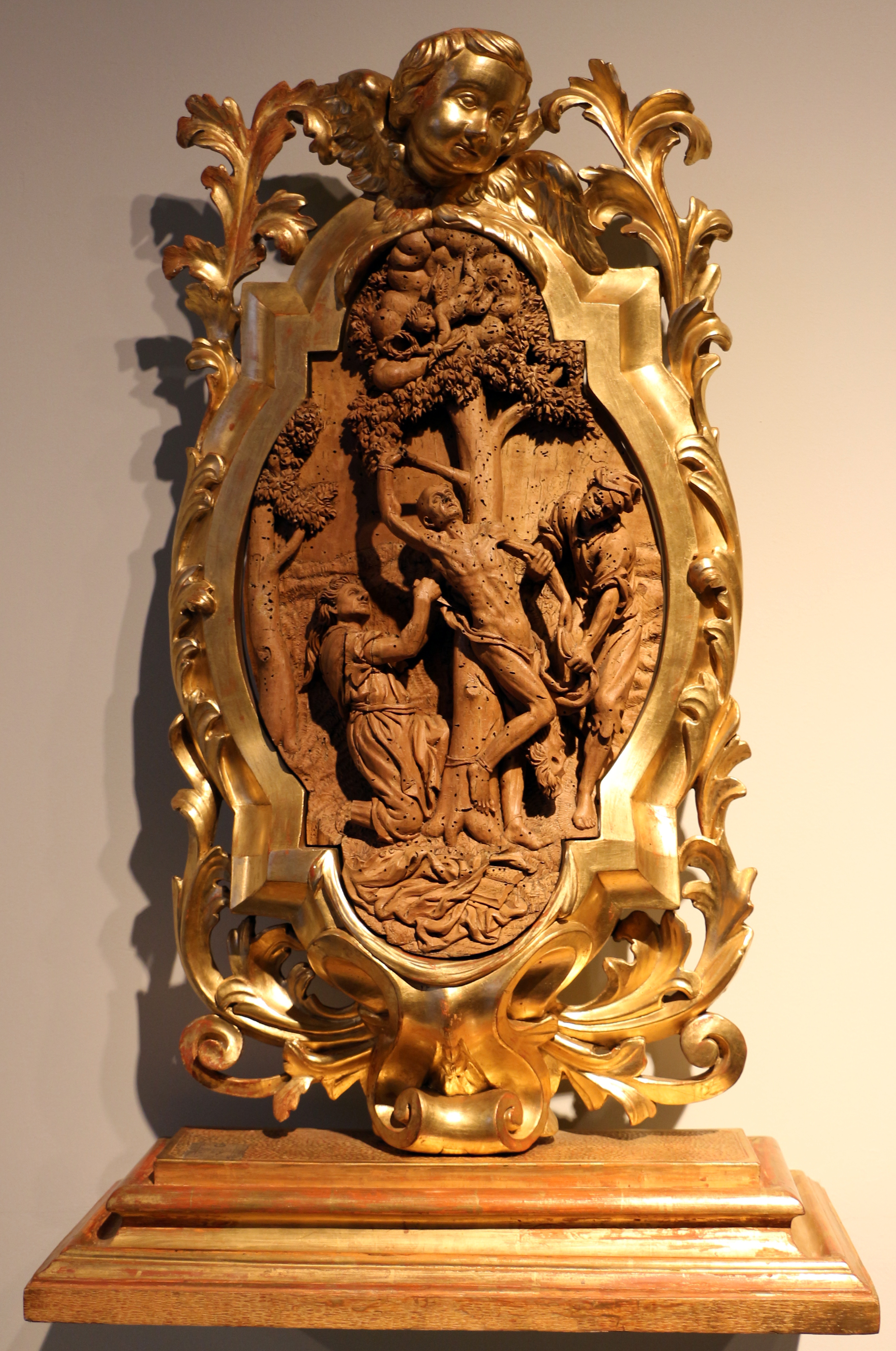 Raccolte d'arte applicate del Castello Sforzesco di Milano - Wooden sculptures